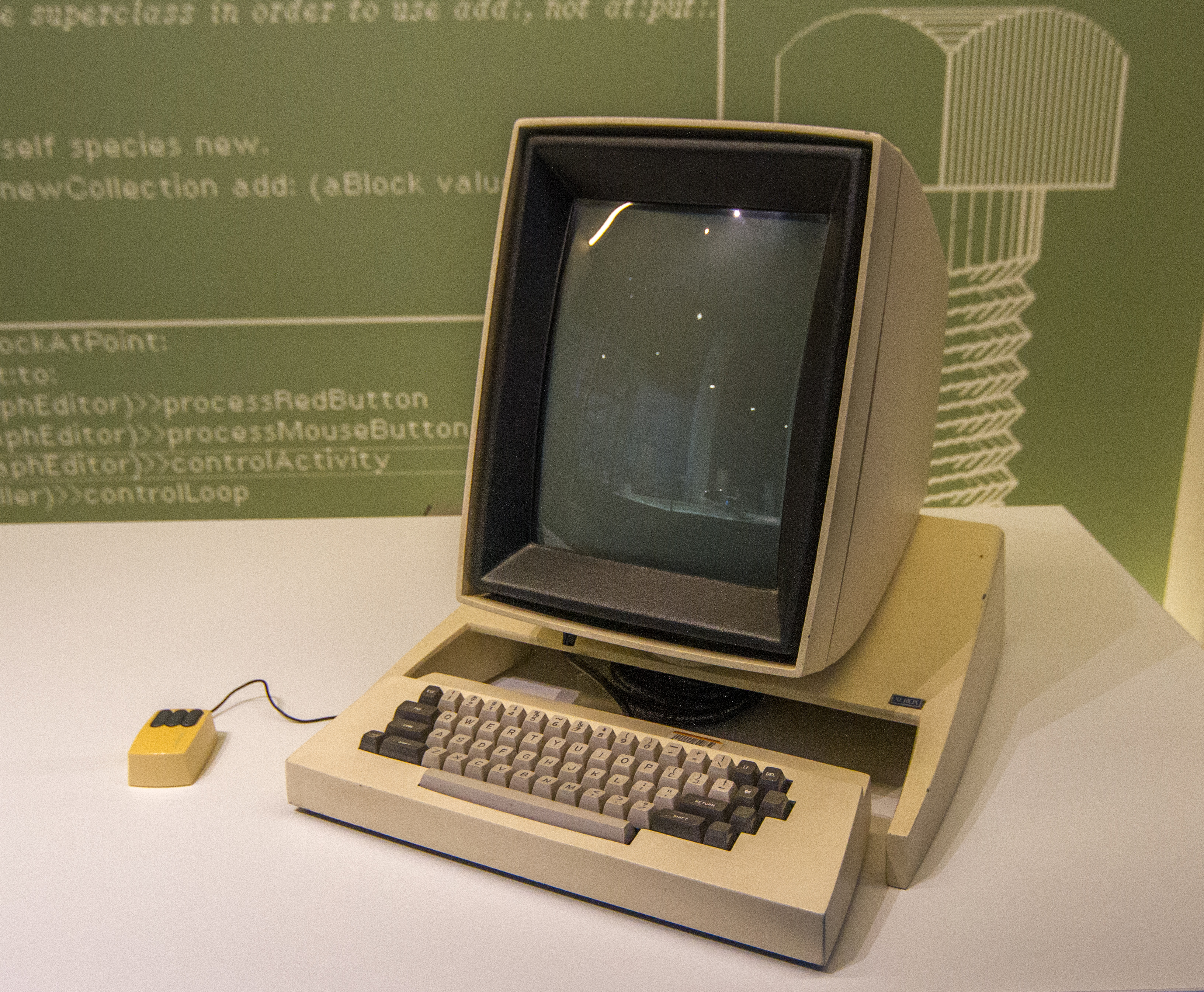 Xerox Alto computer